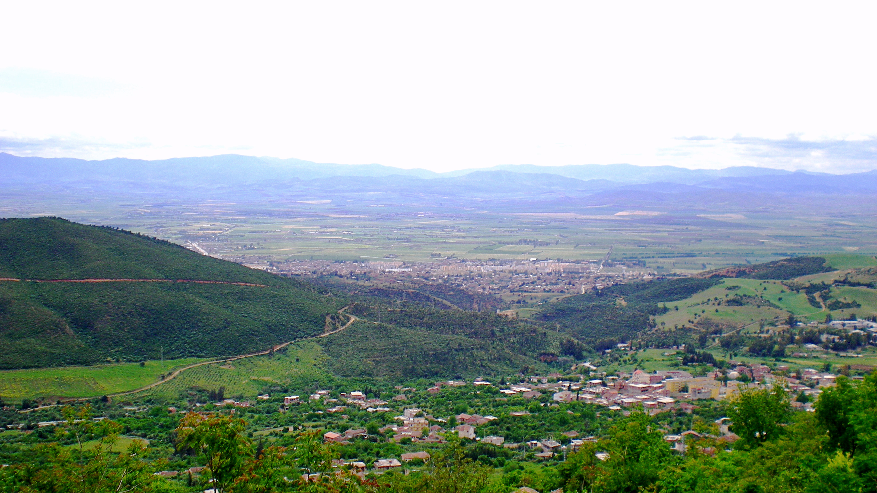 Miliana - Algeria